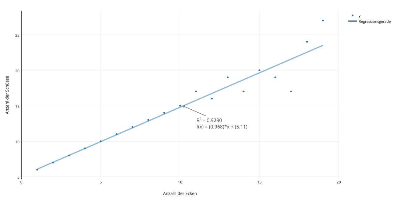 A scatter plot which shows the correlation of corners and goals for a team.